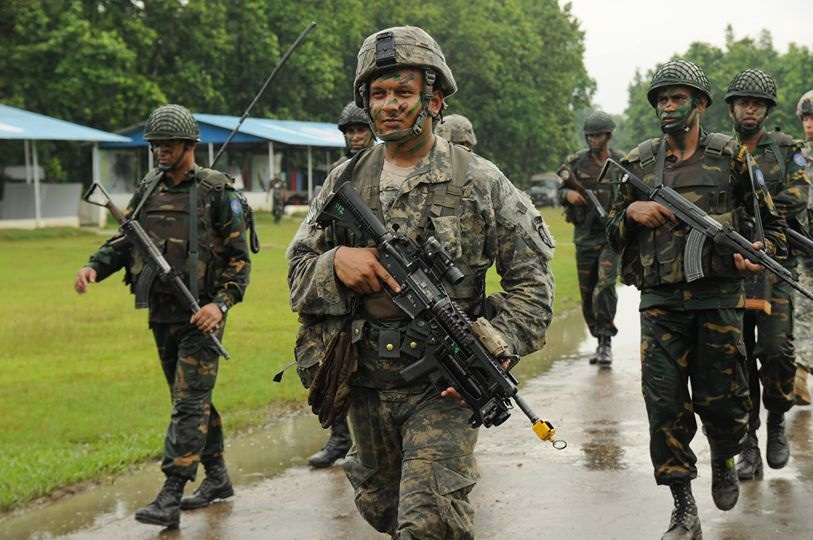 Special forcs joint exercise